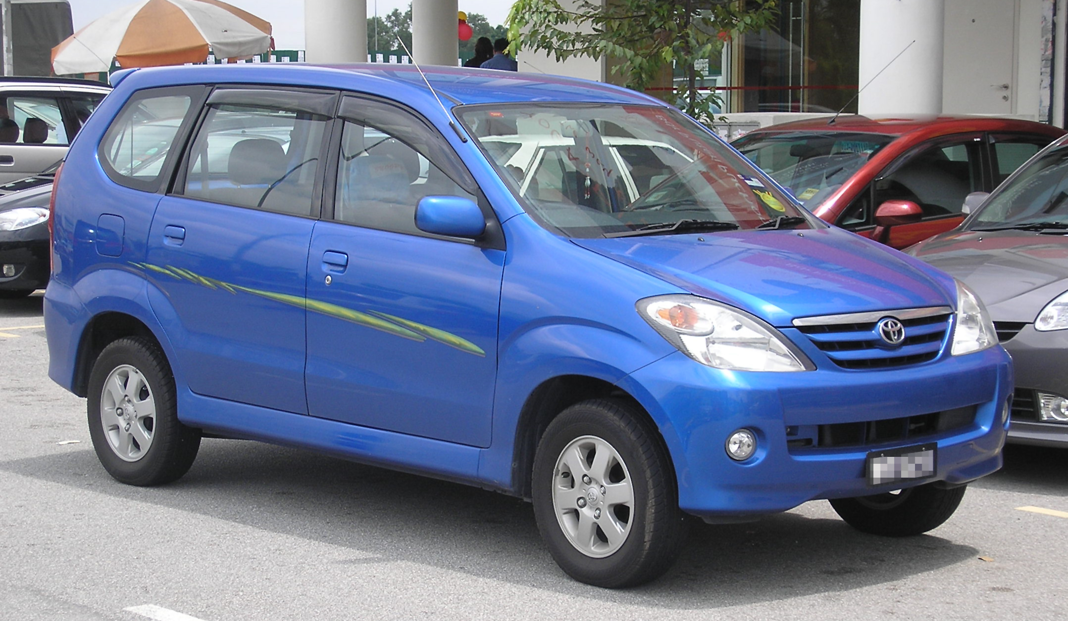 The front of a first generation Toyota Avanza, in Serdang, Malaysia.